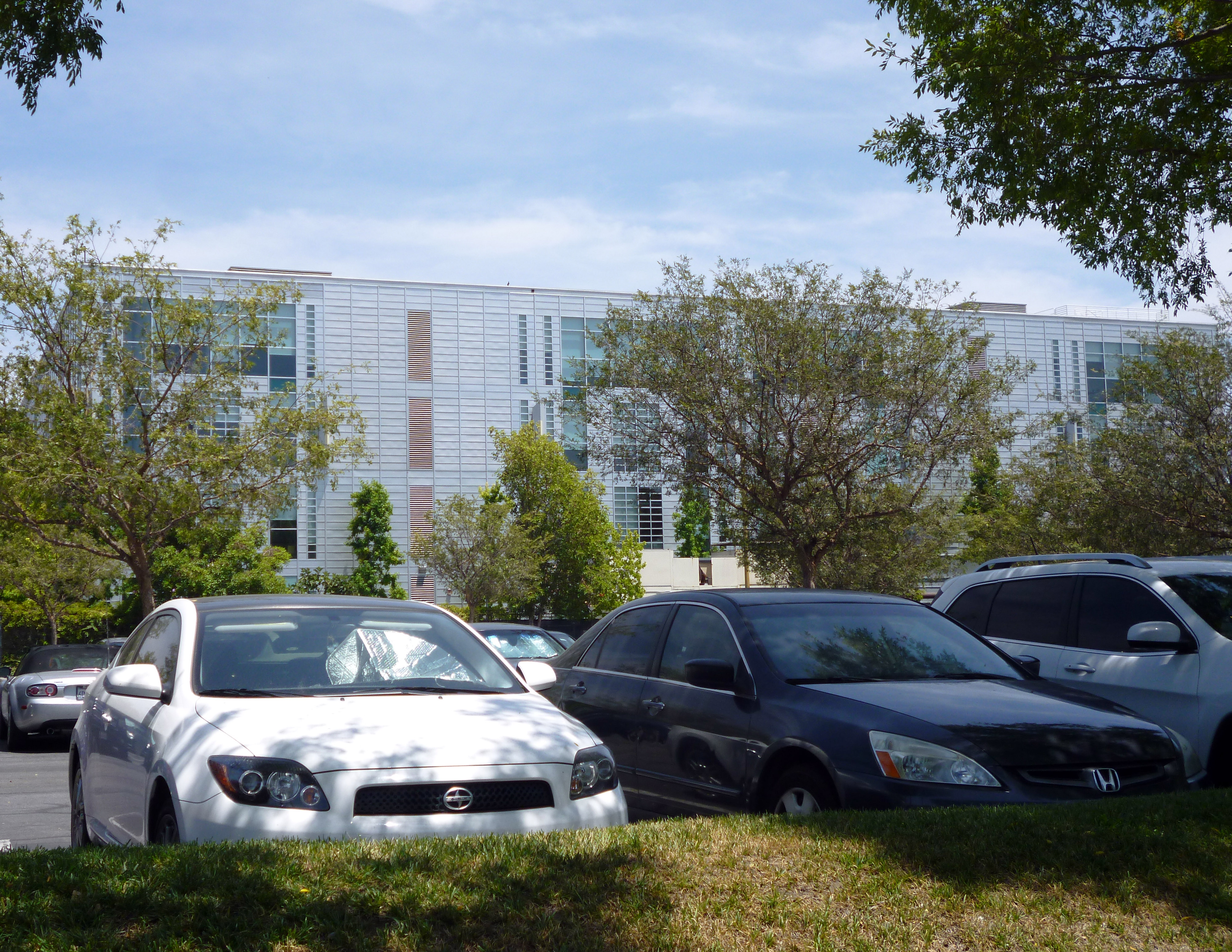 3100 Thornton Avenue, Burbank, California. This office building near Bob Hope Airport was used by Walt Disney Feature Animation as the home of its Secret Lab unit from 1997 to 2002. Ed Catmull, president of Pixar Animation and Disney Animation, explains in his book Creativity Inc. that it was this building which helped inspire the design of Pixar's current building in Emeryville, the Steve Jobs Building. Photographed by user Coolcaesar on June 15, 2014.